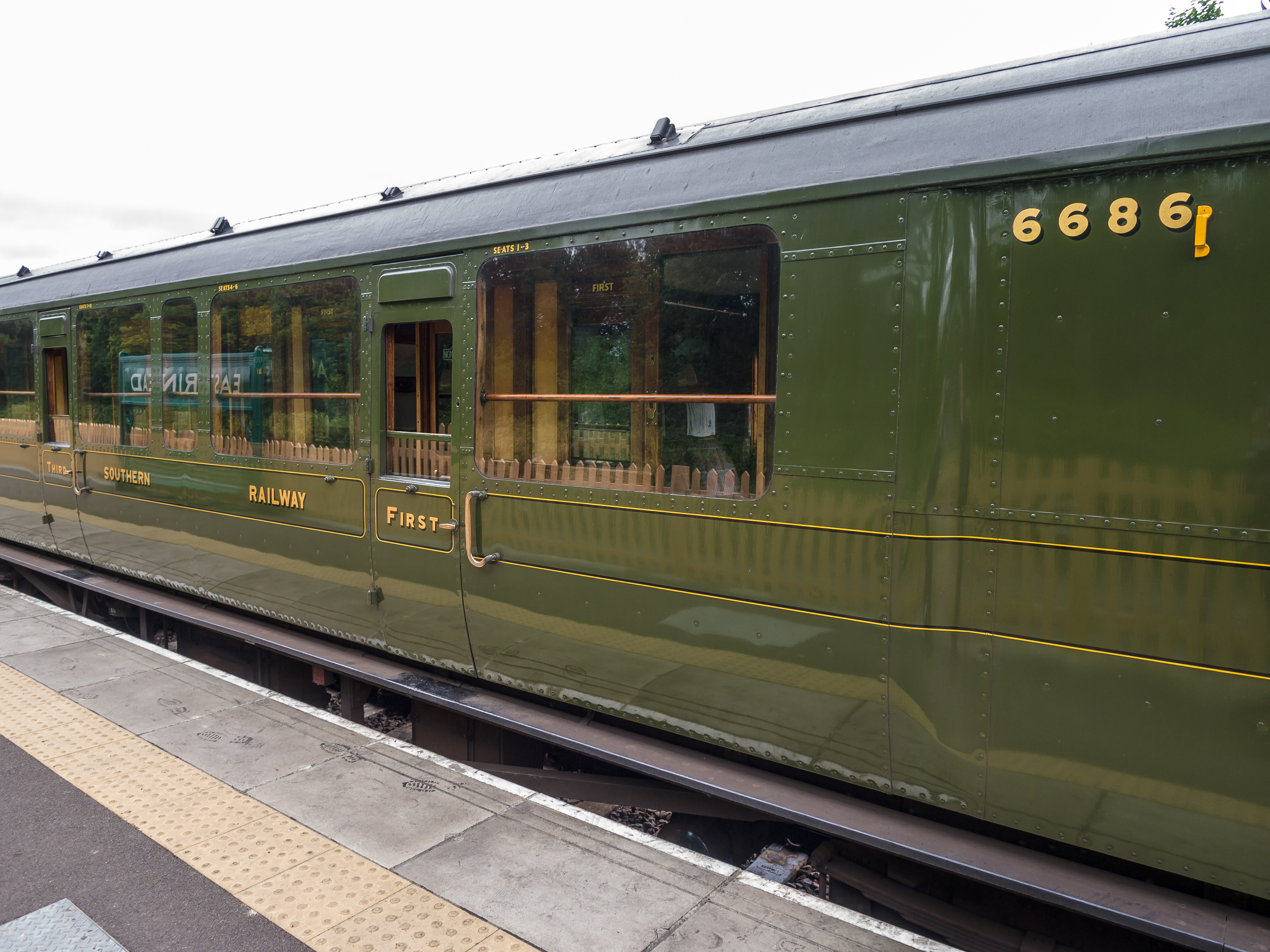 Bluebell Railway (during the 2013 Edwardian week-end)